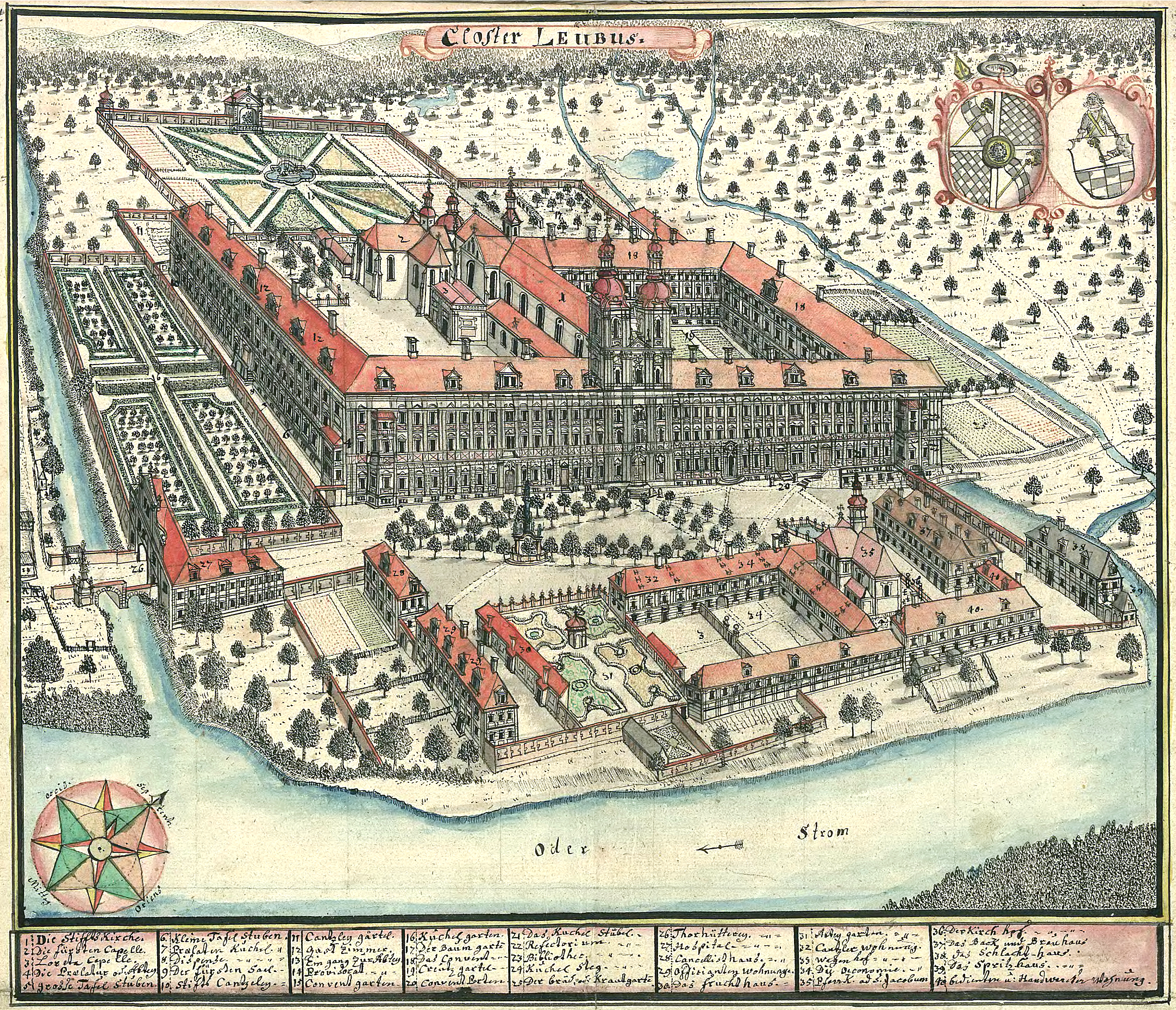 Leubus Abbey.